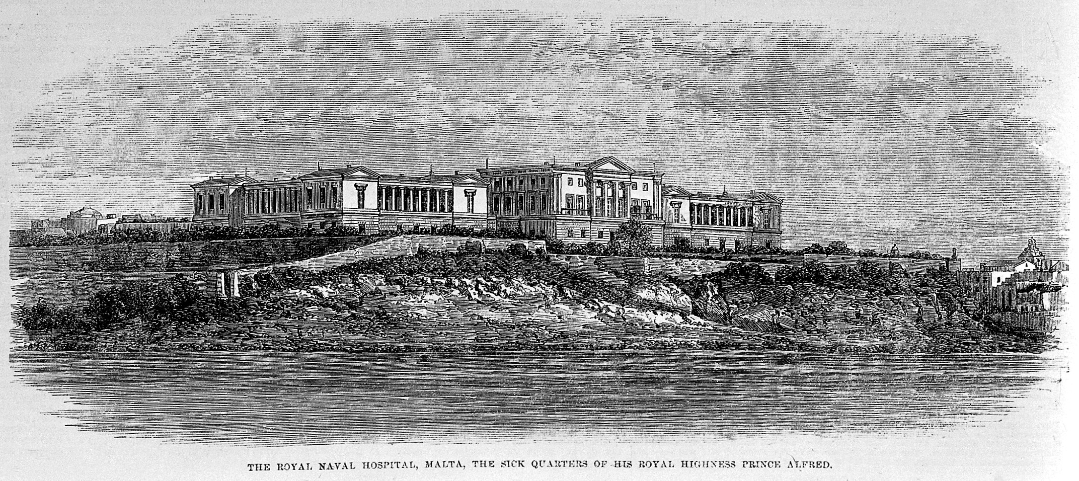 The Royal Naval Hospital, Malta, the sick quarters of His Royal Highness Prince Alfred. General Collections Keywords: Institutions; Malta